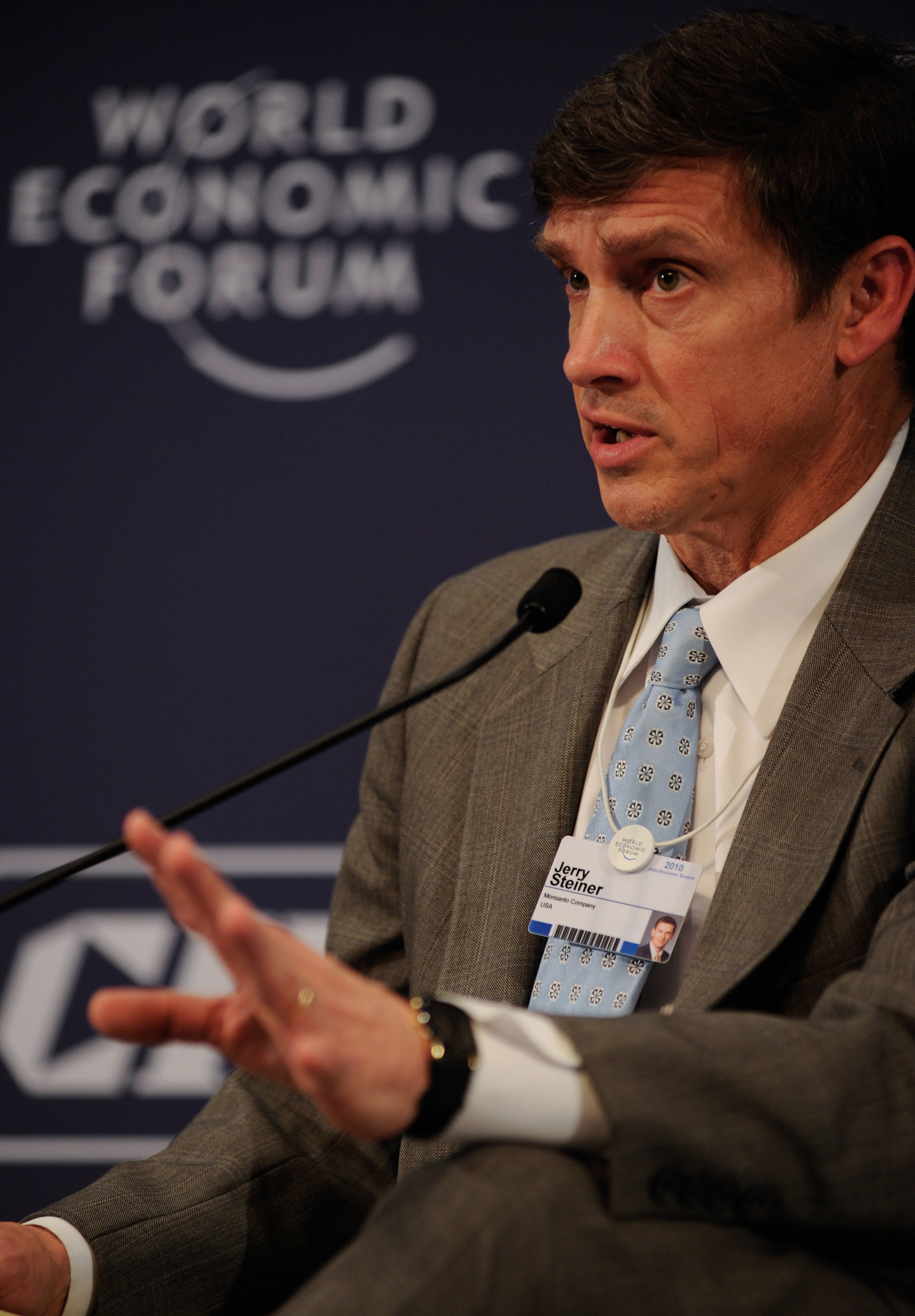 Jerry Steiner, Executive Vice-President, Monsanto Company, USA, during the Modernizing India's Agriculture Sector at the World Economic Forum's India Economic Summit 2010 held in New Delhi, India, 14-16 November 2010.